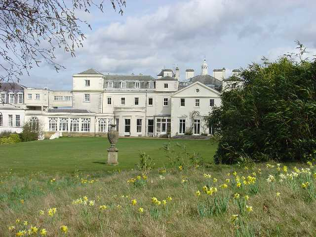 Combe Bank School, Sundridge. Combe Bank is a fine Palladian house built in 1720. The buildings are now used as an independent girls school. Details of the school and estate can be found at